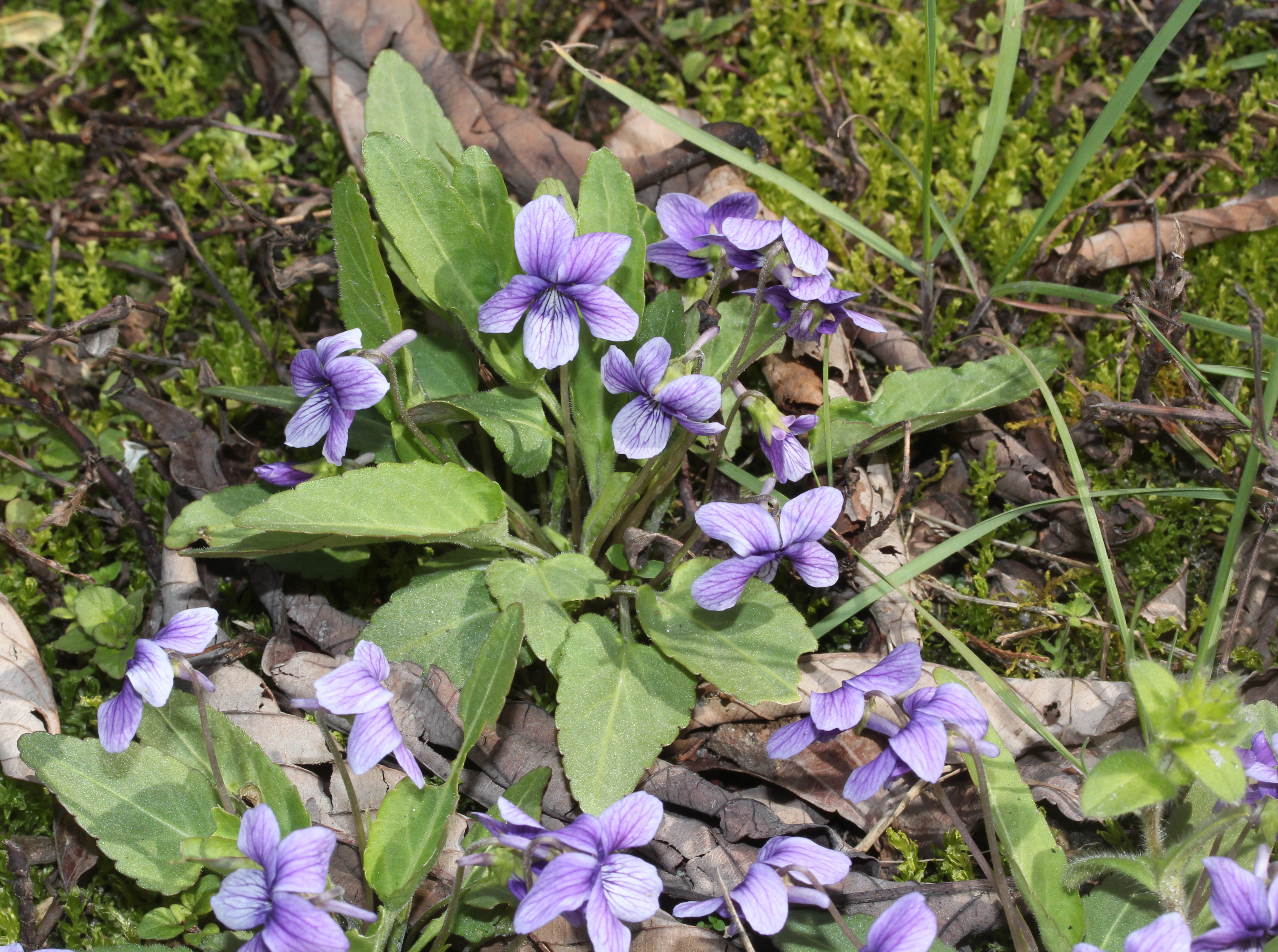 Viola yedoensis in Mount Funabuse, Yamagata, Gifu prefecture, Japan.